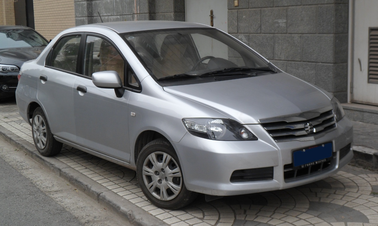 Everus S1 photographed in Shanghai, China.